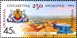 Stamp of Ukraine